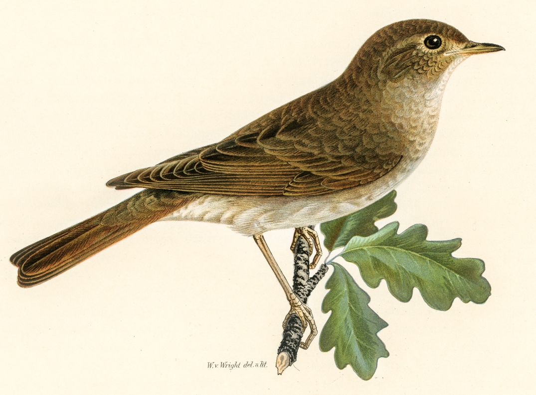 Luscinia luscinia. Svenska fåglar.jpg